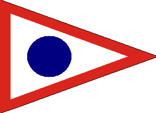 Union Army I Corps, 3rd Division Badge, 3rd Brigade